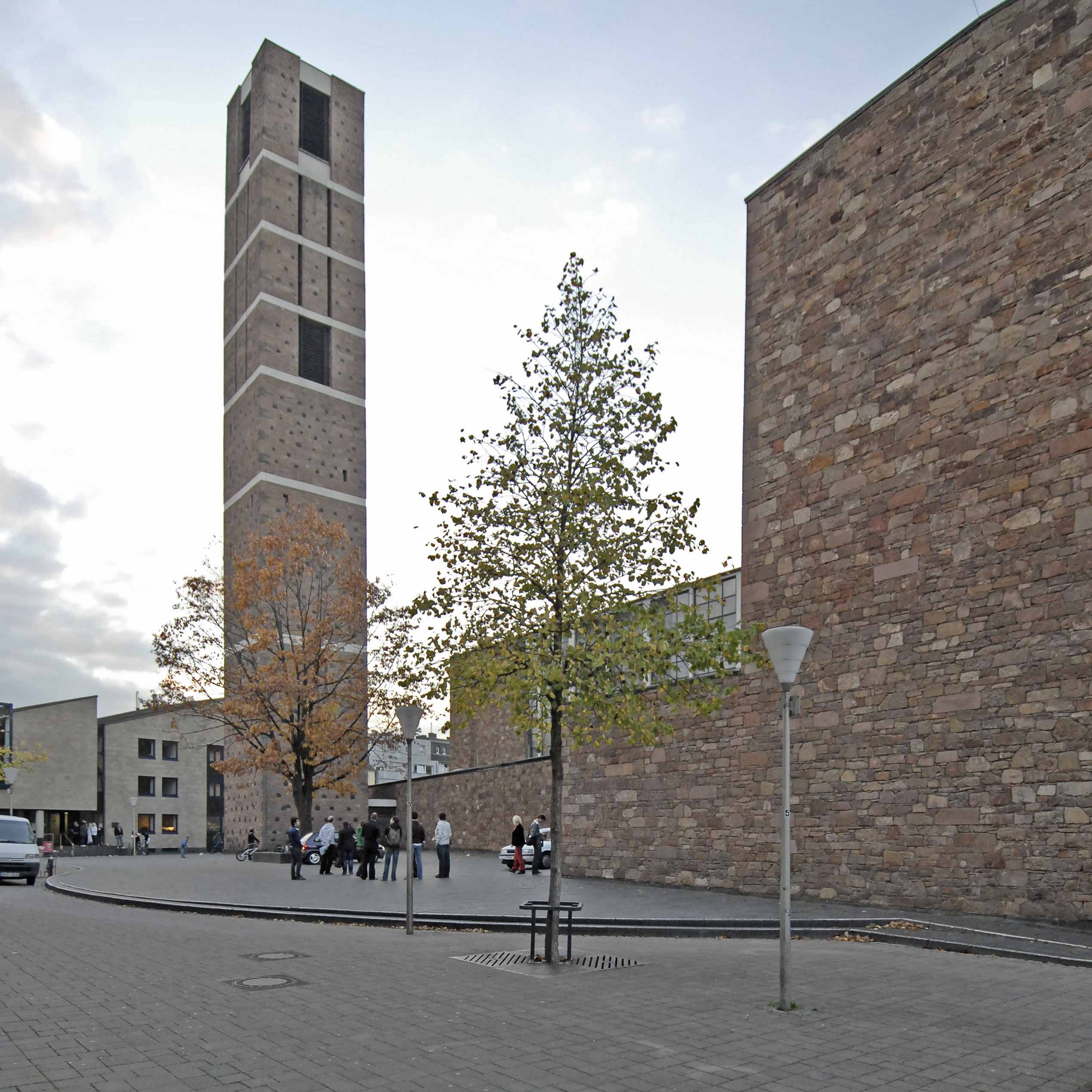 Church St. Anna in Düren by Architect Rudolf Schwarz